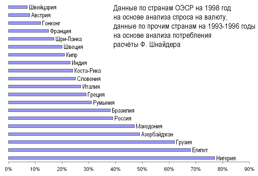 Informal economy in GNP diff. countries